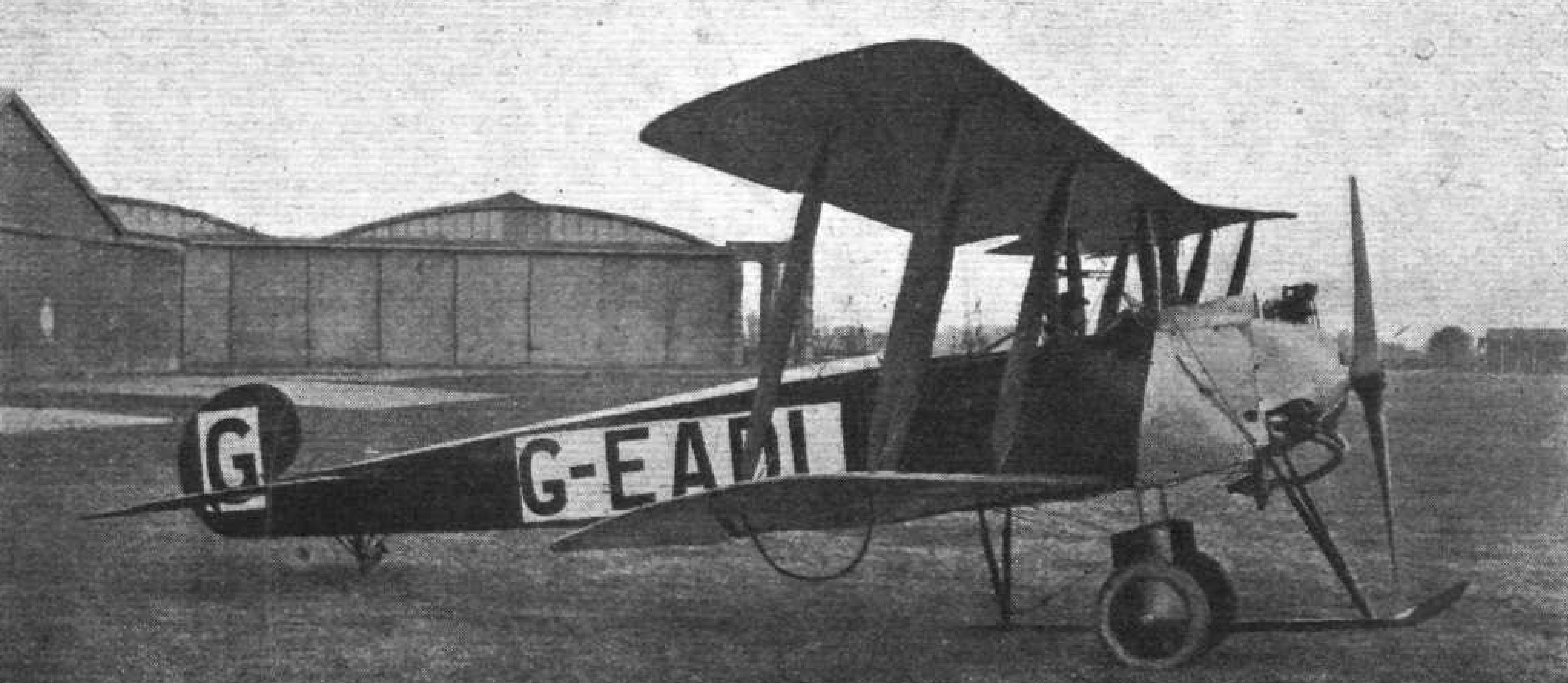 An Avro 504 powered by a Cosmos Lucifer engine